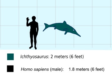 A comparison of the body sizes between an Ichthyosaurus and an adult male human.